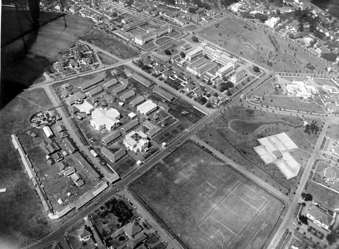 Air photo of the Trade Fair at Bandung